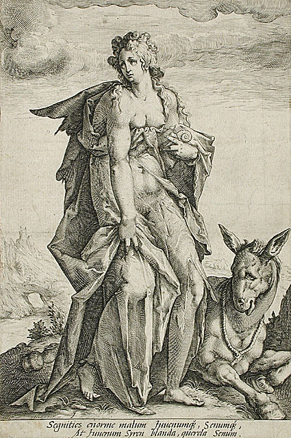 Part of the series The Vices, plate 7.